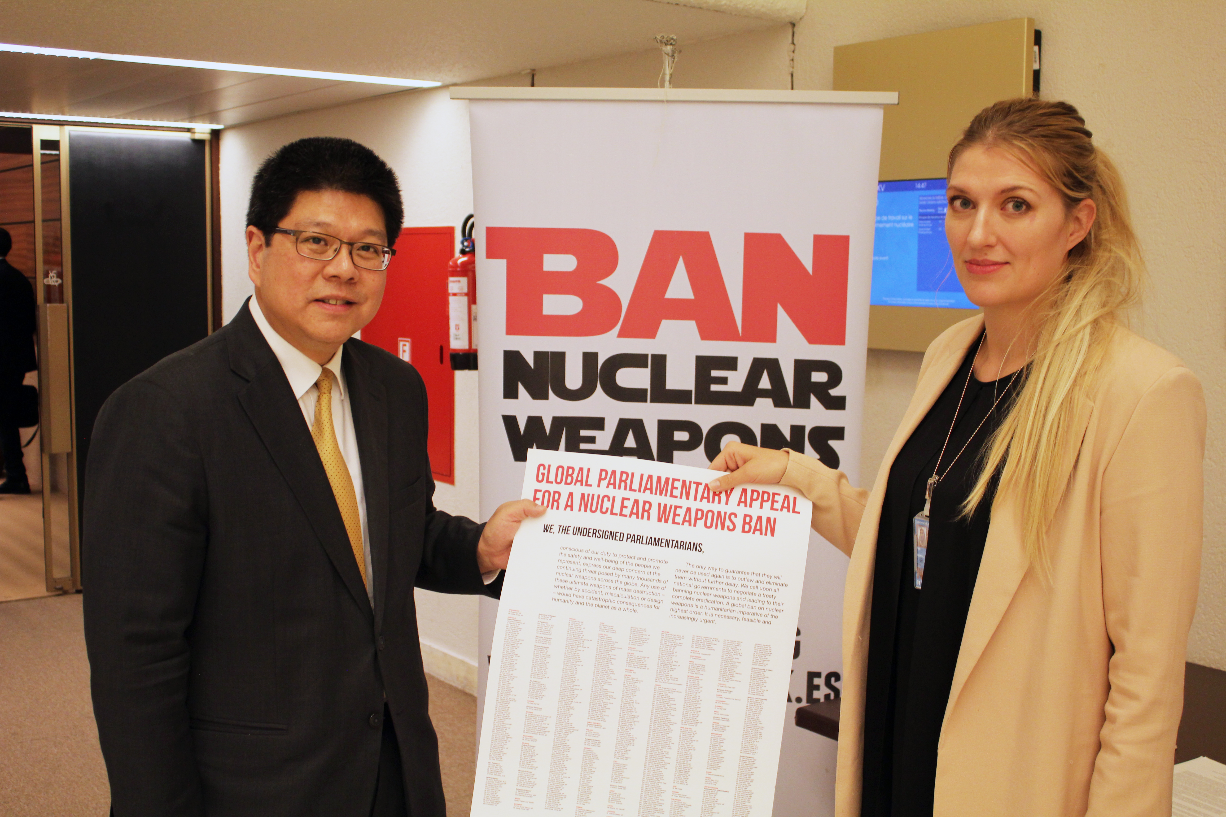 Ambassador Thani Thongphakdi of Thailand, the chair of a UN working group on nuclear disarmament, accepts a global parliamentary appeal from Beatrice Fihn, executive director of the International Campaign to Abolish Nuclear Weapons, in Geneva on May 3, 2016.